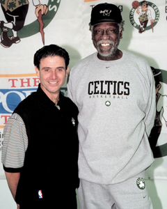 Boston Celtics Coach, Rick Pitino with Bill Russell